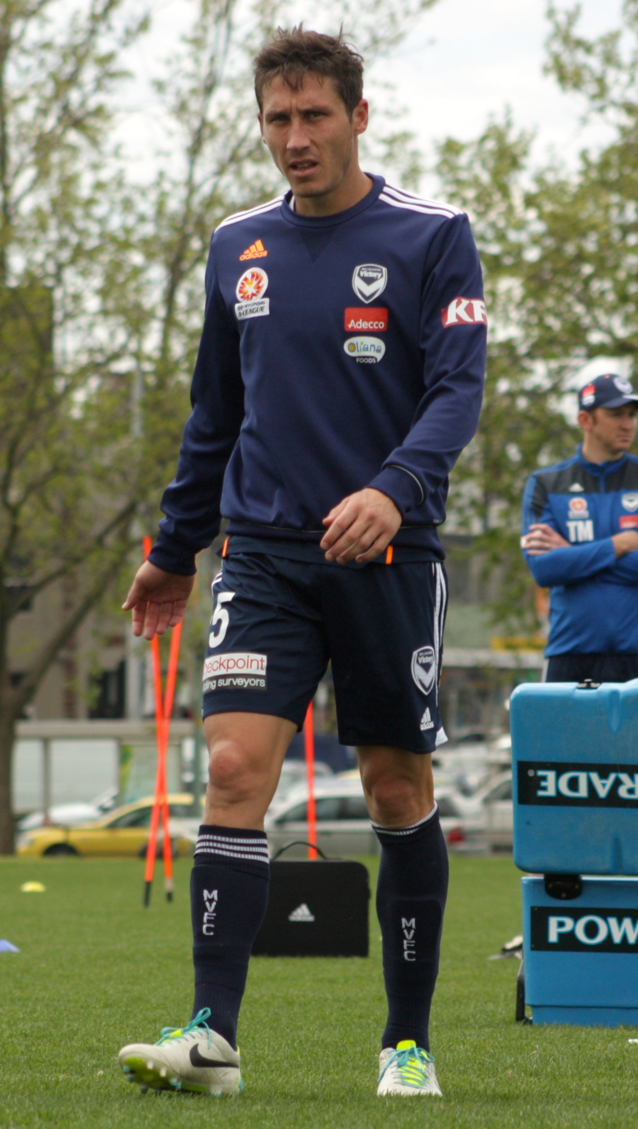 Mark Milligan training for Melbourne Victory at Gosches Paddock.